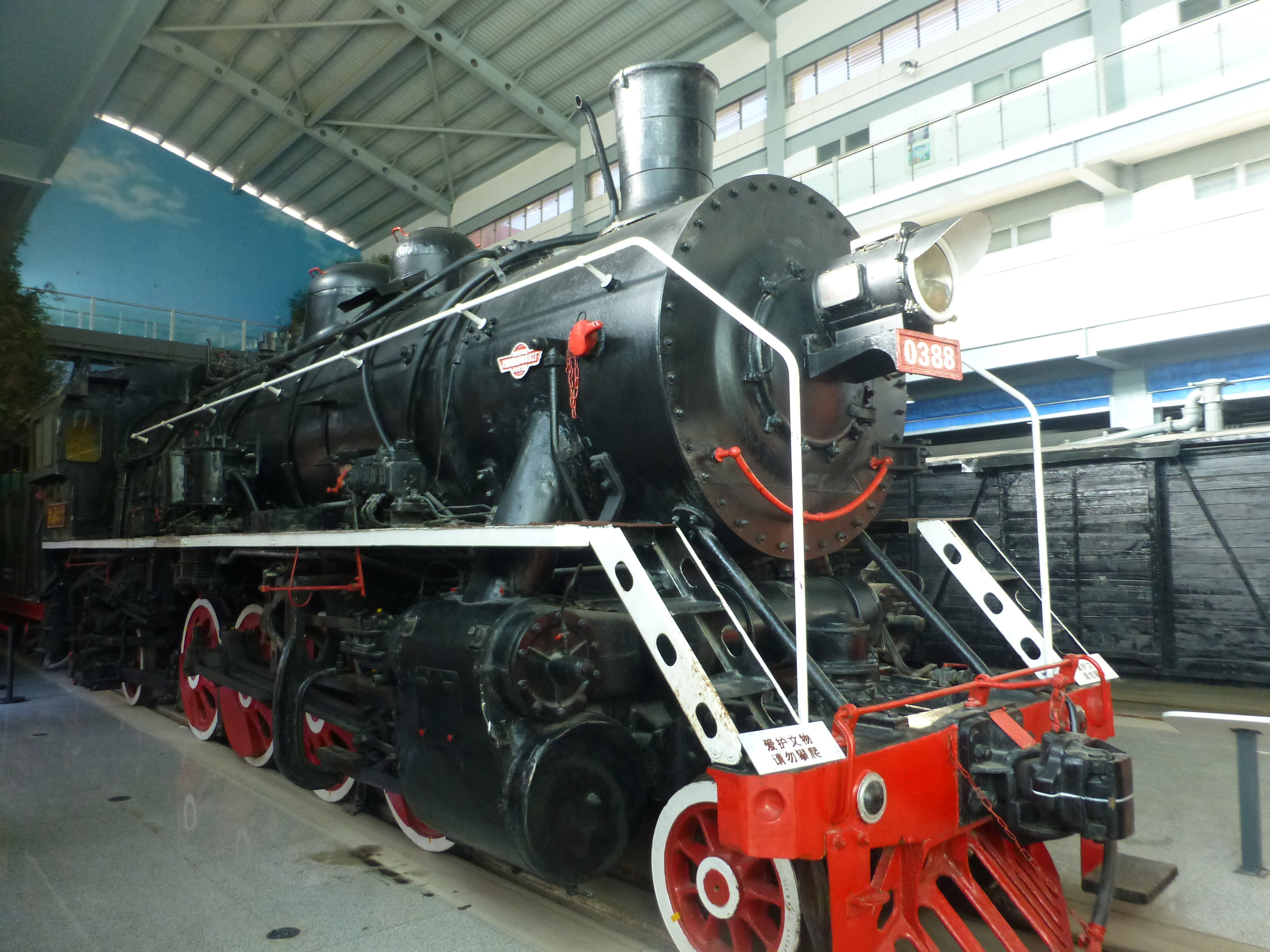 Rolling stock on display in the Yunnan Railway Museum (Kunming North Railway Station)